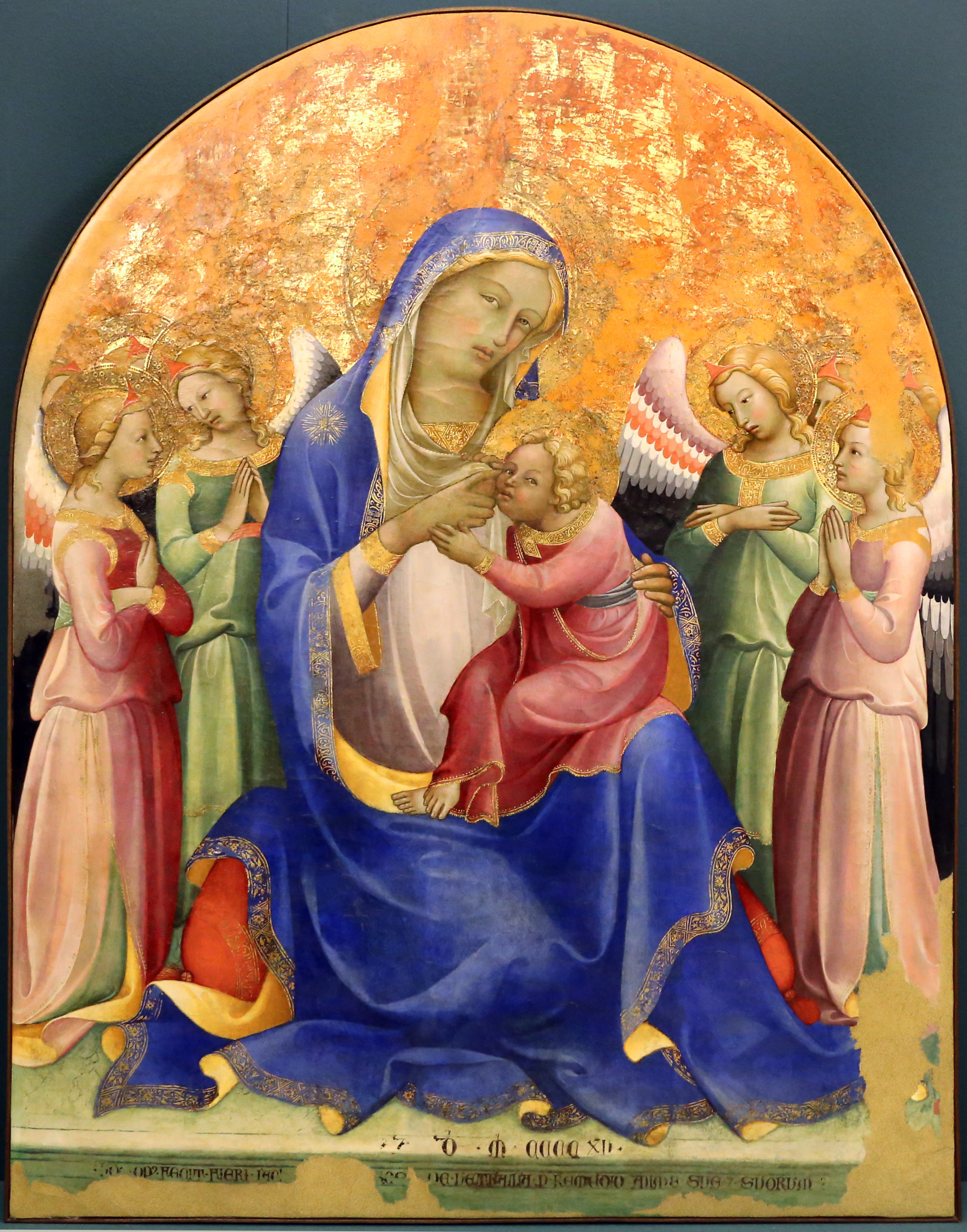 Misericordia exhibition in Senigalllia (2016)